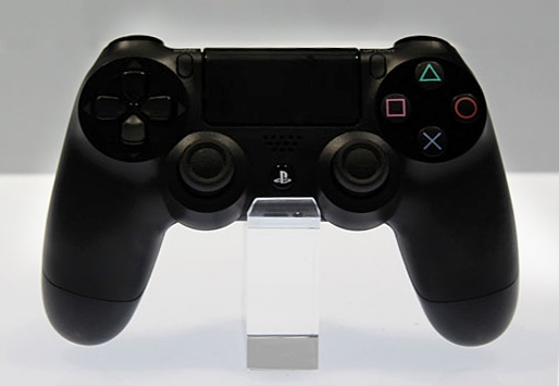 The DualShock 4 controller for the PlayStation 4 shown at E3 2013